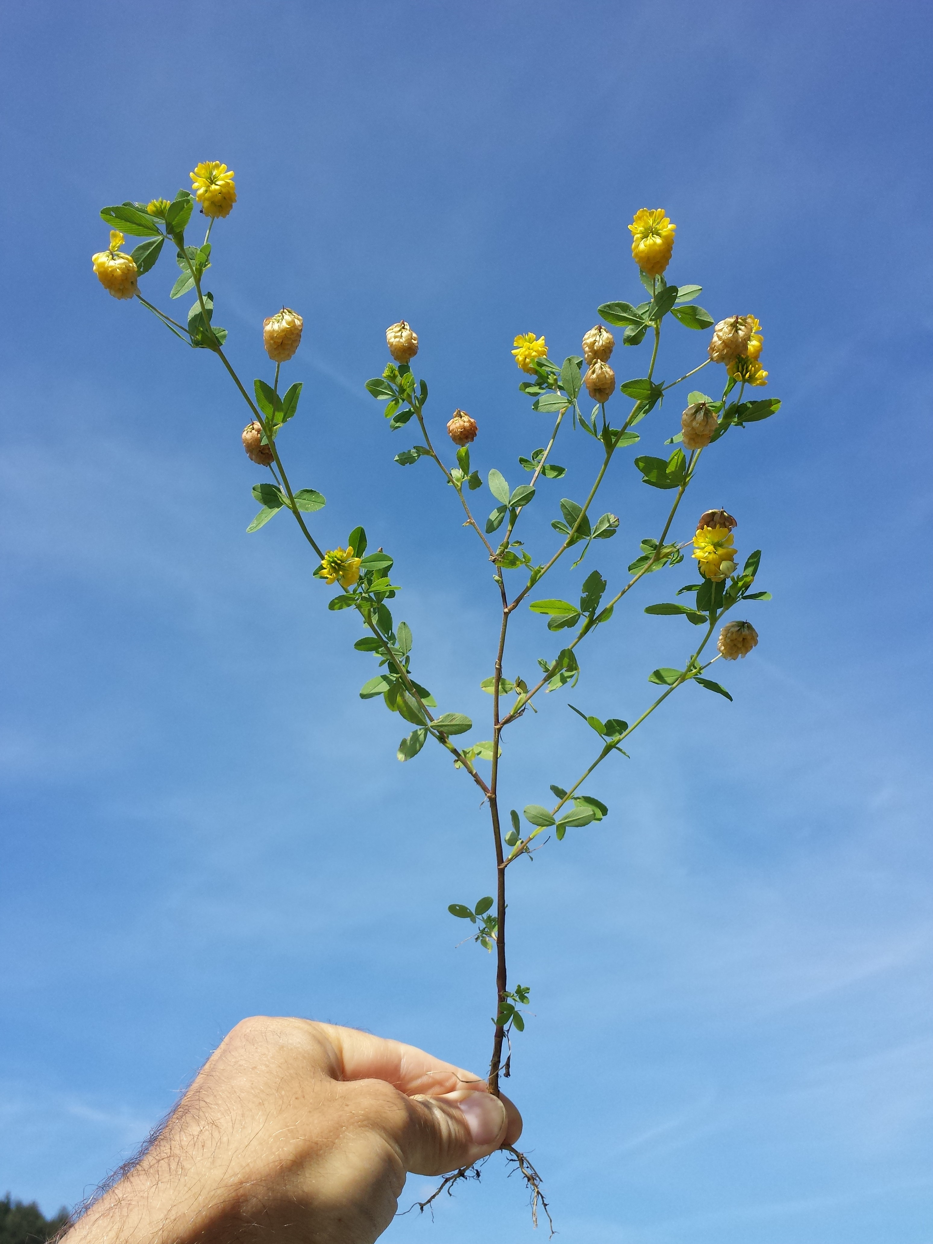 Habitus Taxonym: Trifolium aureum ss Fischer et al. EfÖLS 2008 ISBN 978-3-85474-187-9 Location: near Feuranz, Rappottenstein, district Zwettl, Lower Austria - ca. 700 m a.s.l. Habitat: border of a wood